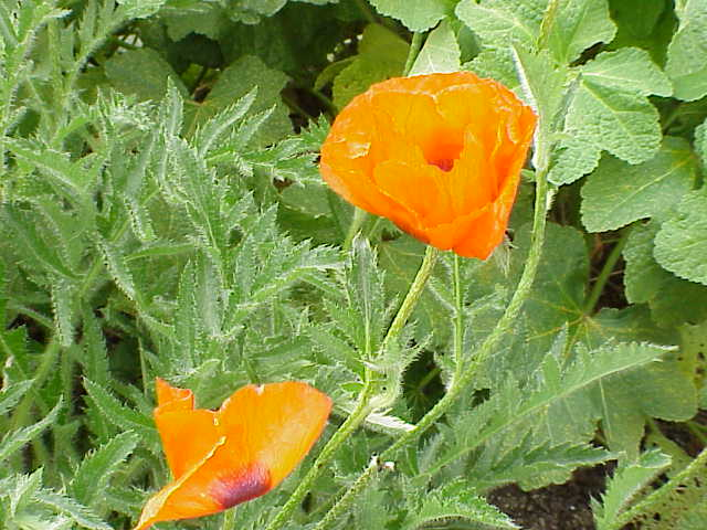 Species: Papaver orientale Family: Papaveraceae Image No. 4